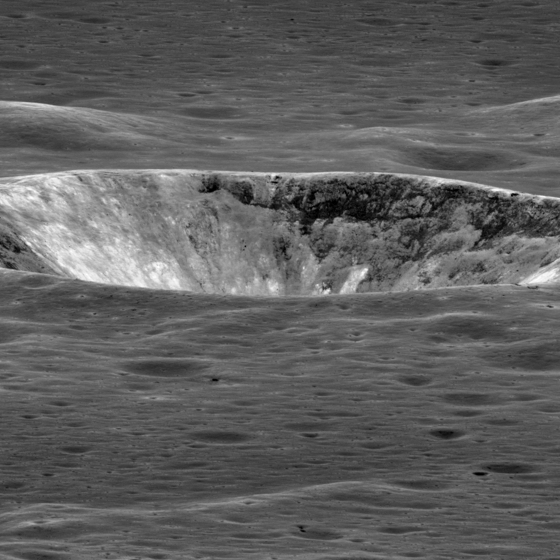 Spectacular view across the rim of Wallach crater (5700 meter diameter), acquired when LRO was 93 kilometers above the surface, M1236317761LR (NASA/GSFC/Arizona State University).